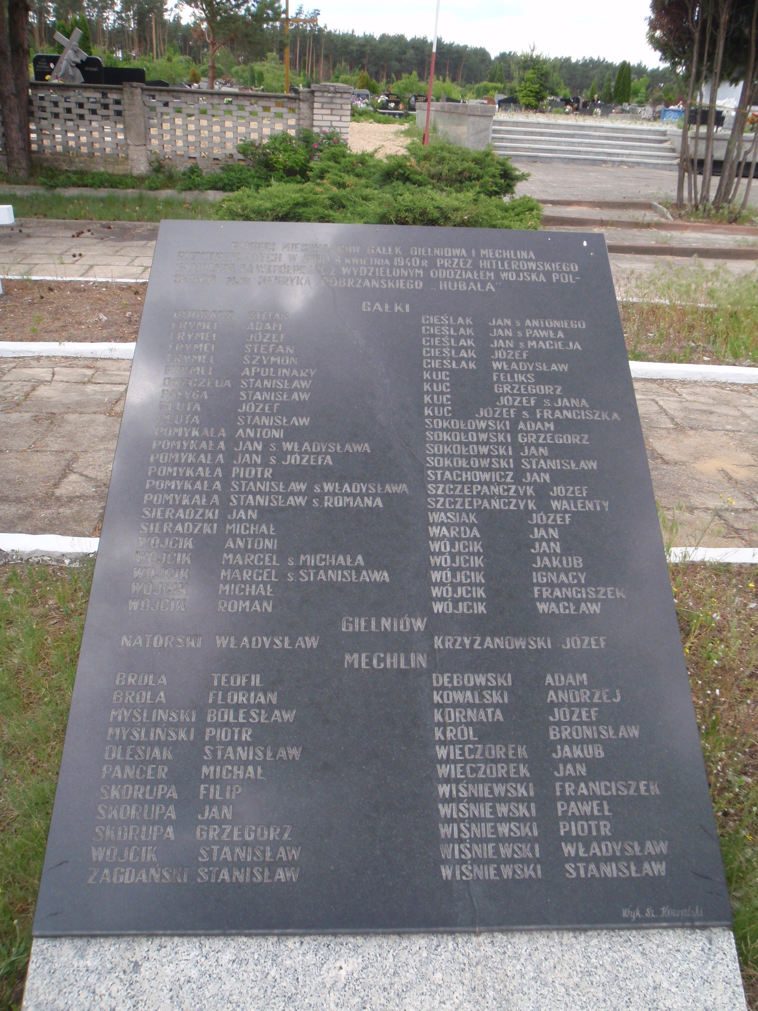 Communal cemetery in Radom - monument commemorating victims of pacification of Gałki village conducted by Germans